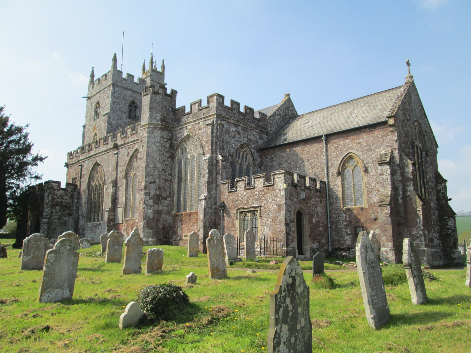 St Mary's Church, in Silverton, Devon, viewed from the south-east.